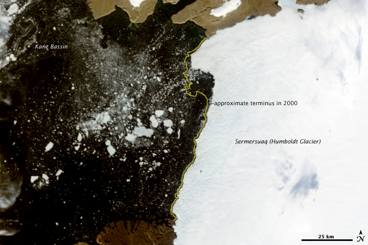 NASA Earth Observatory Satellite image of the Sermersuaq (Humboldt) Glacier, Greenland